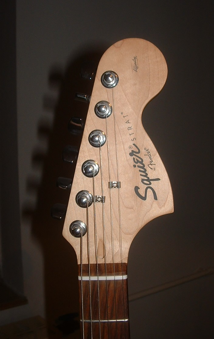 Headstock of a Squier Stratocaster Affinity electric guitar